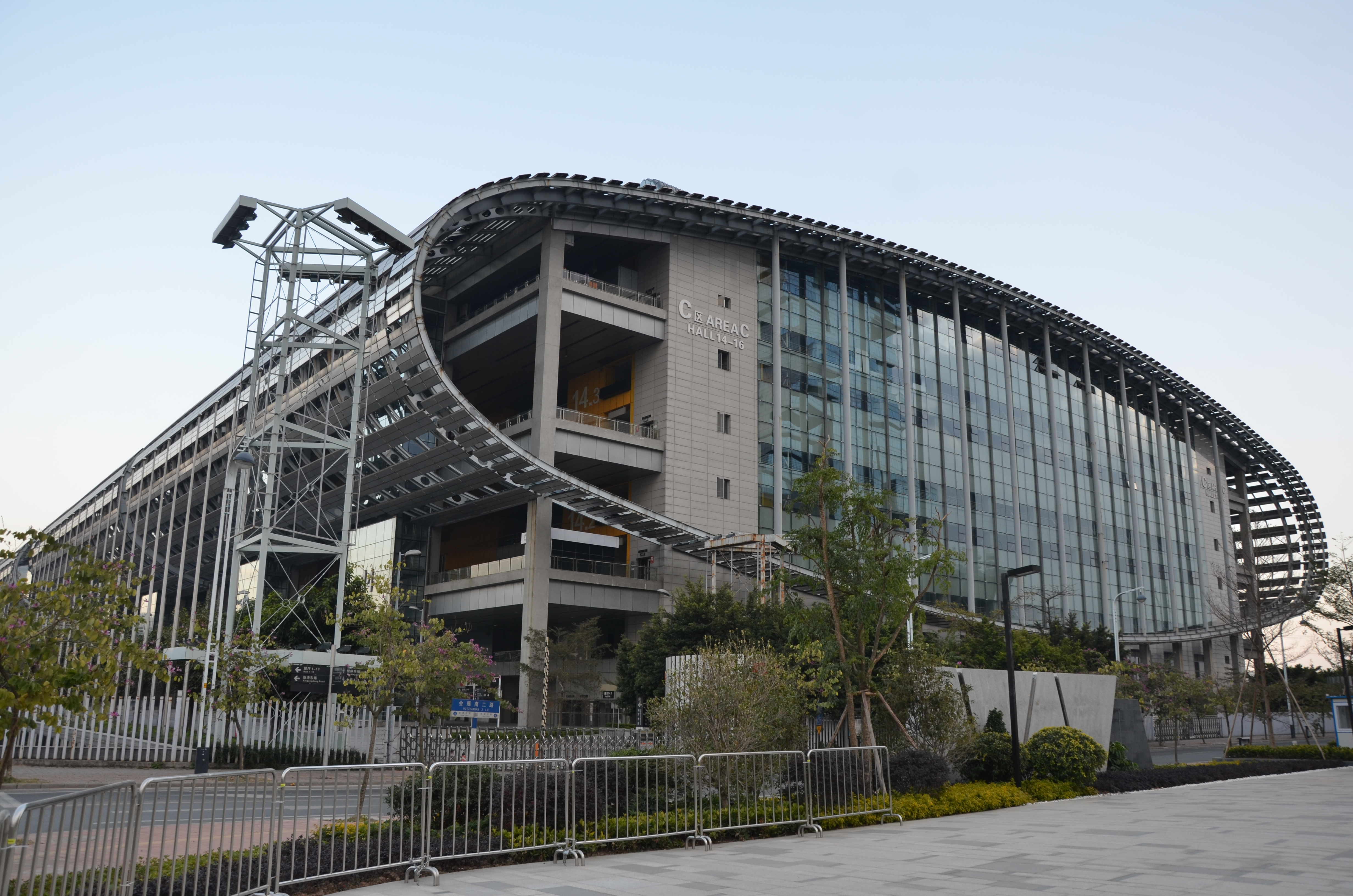 Area C of China Import and Export Complex